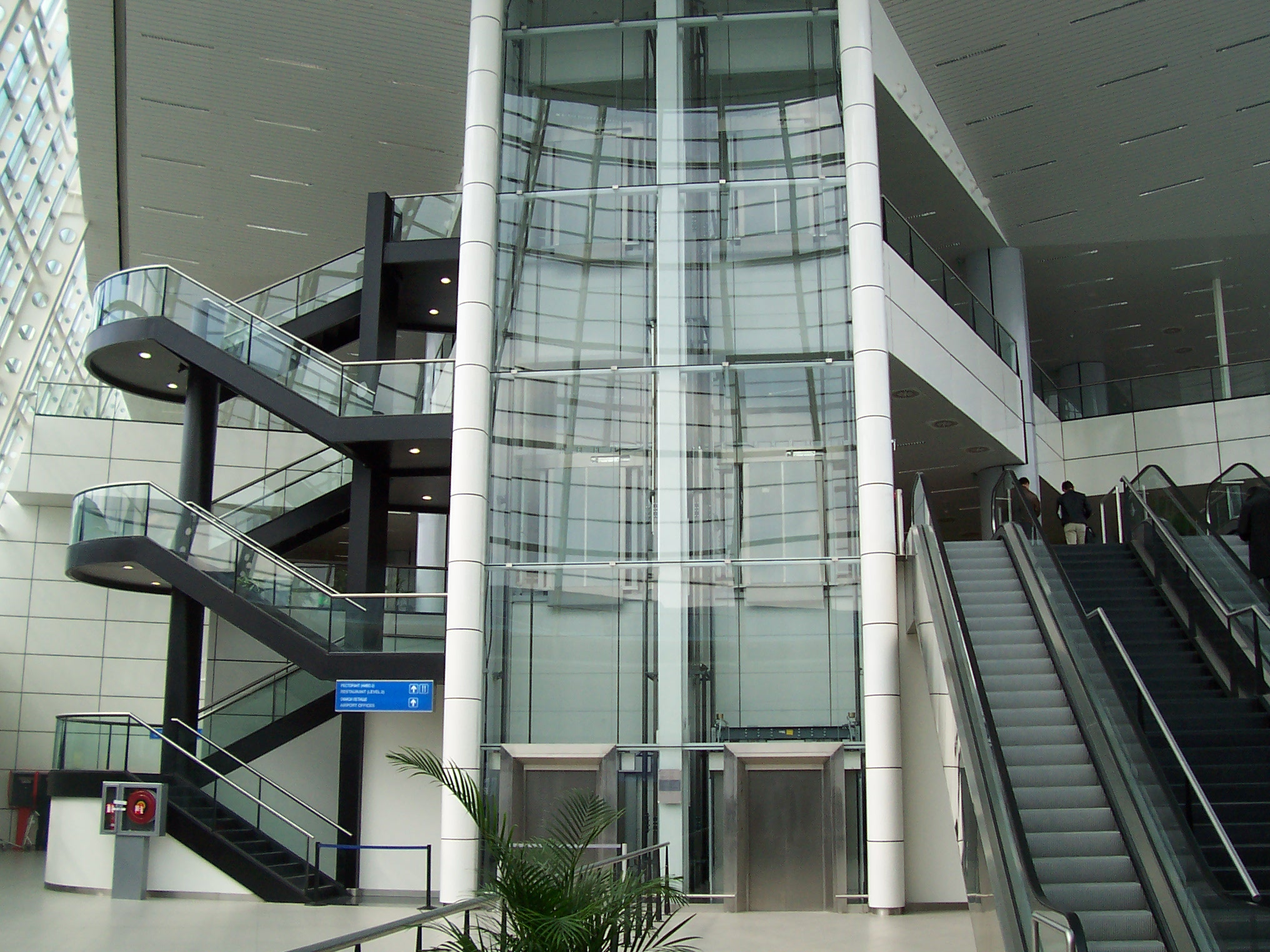 The central hall of the new terminal 2 at the Sofia Airport, Bulgaria.